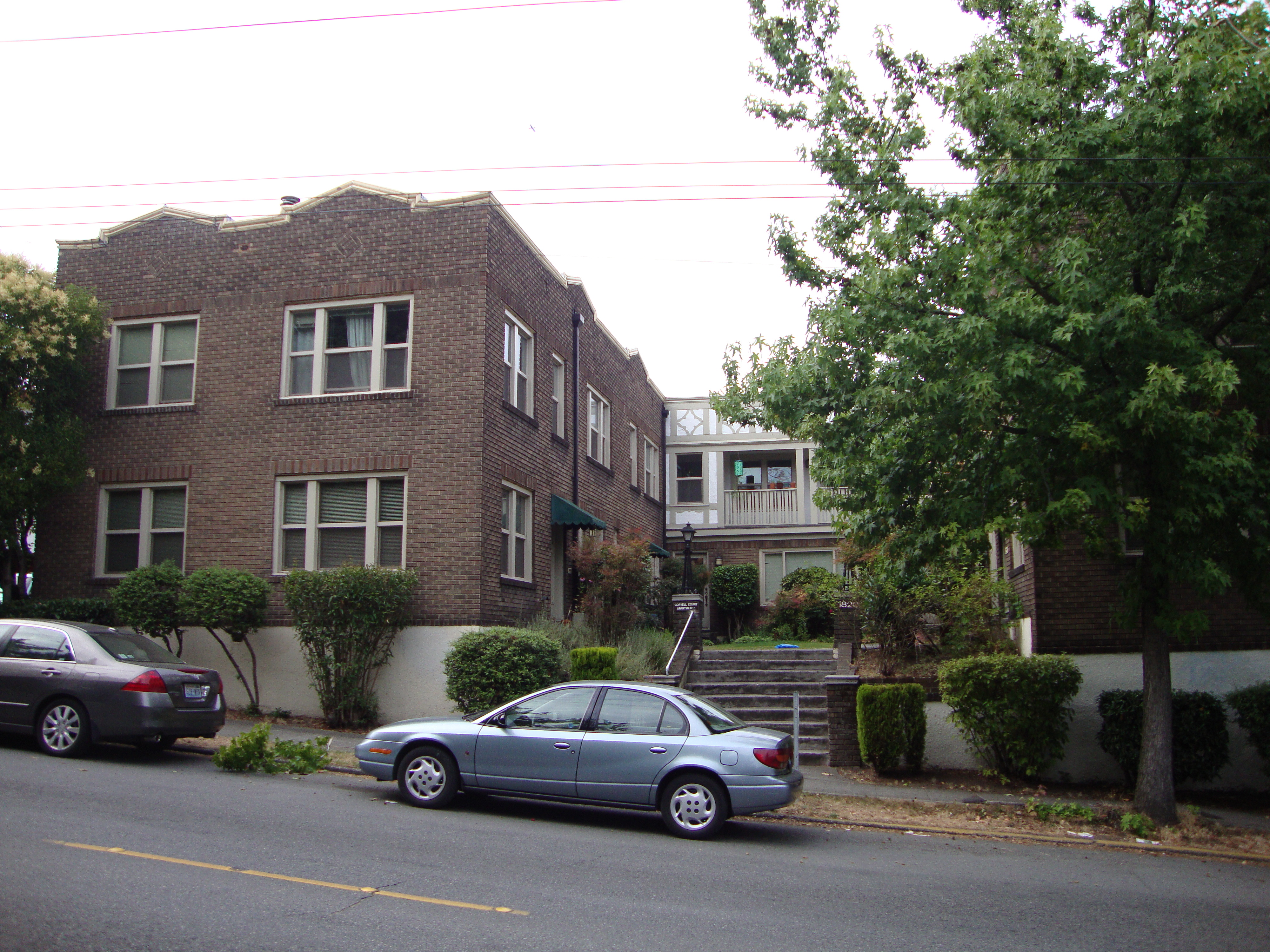 Seattle apartment building from the movie Singles.